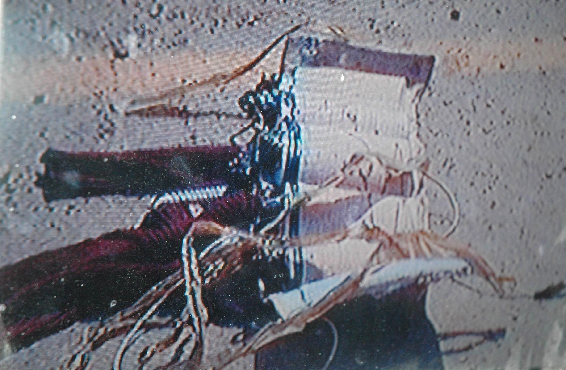 03/29/2006 An 18 year old Palestinian who arrived to the Beka'ot checkpoint, west of Nablus, raised the suspicions of the soldiers that manned the station. On his body an explosive belt was found. The Israel Defense Forces Facebook The Israel Defense Forces blog Follow us on Twitter Pictured: The explosive belt that was strapped to his body